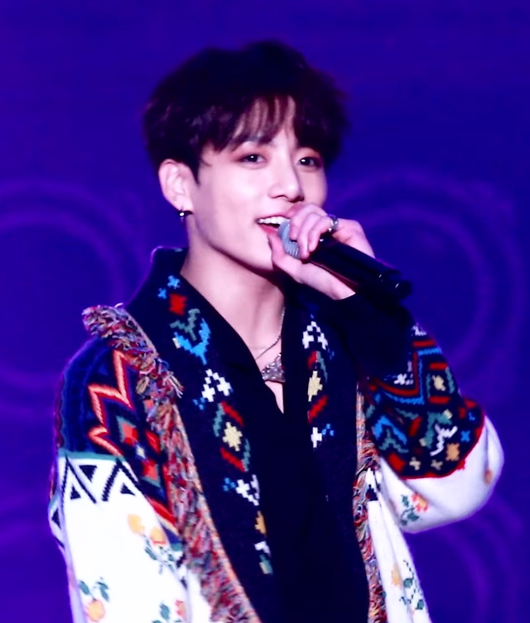 Jeon Jung-kook during the "Boy In Luv" performance at SBS Gayo Daejeon, 25 December 2018